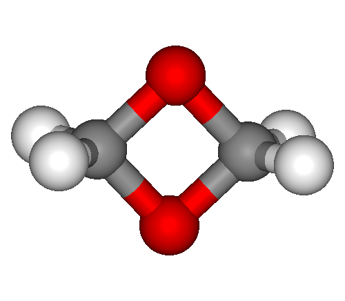 Chemical structure of 1,3-dioxetane